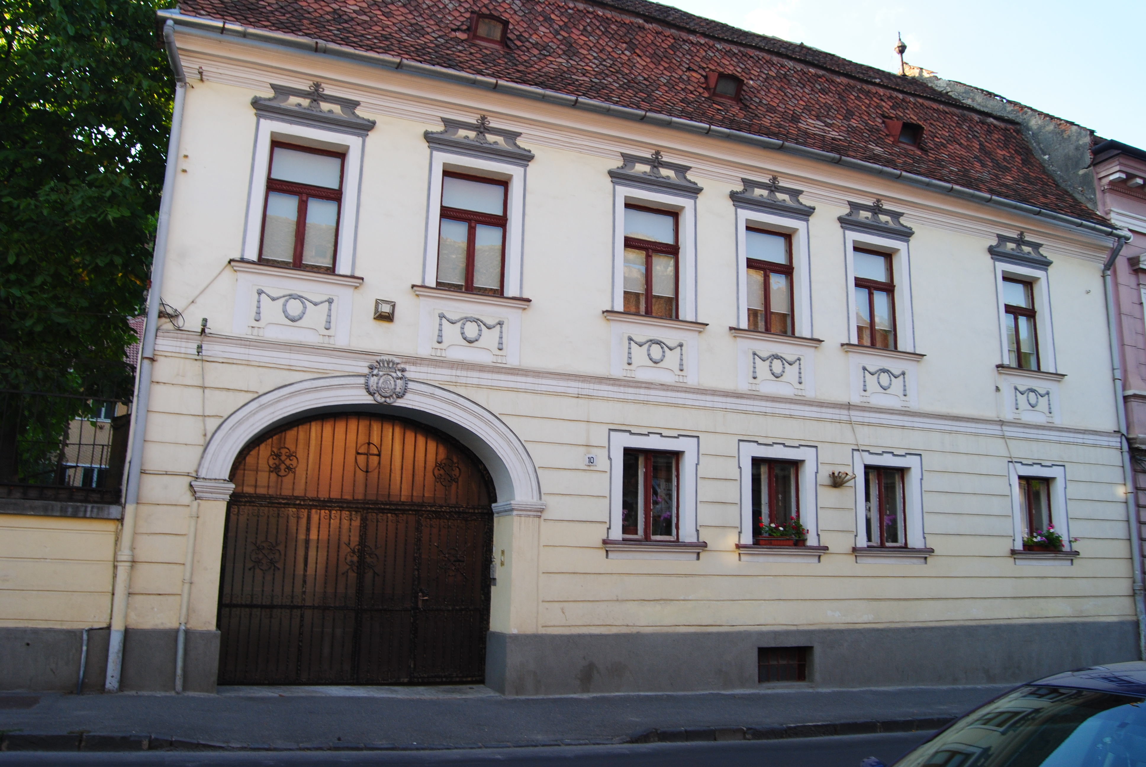 House, 10 St. Ct. Brâncoveanu, Brașov, Romania